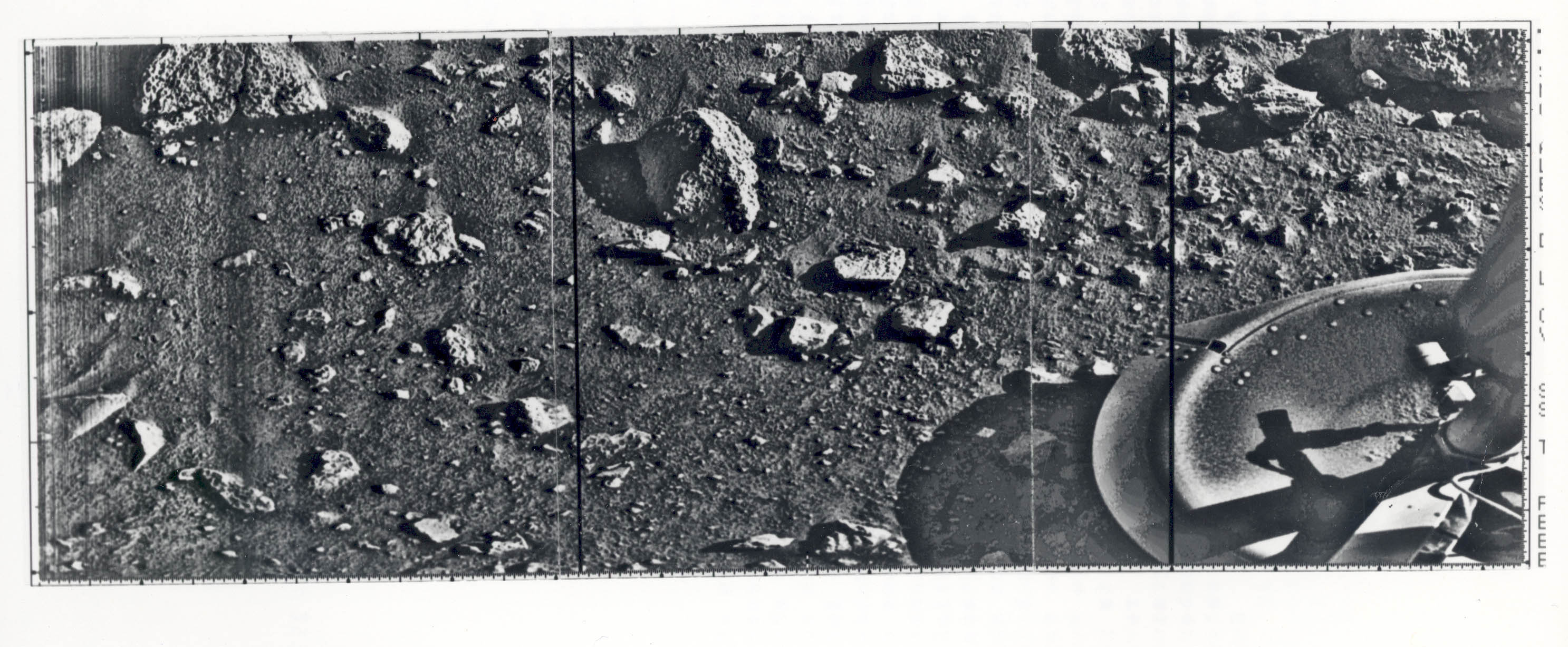 The image above is the first photograph ever taken from the surface of Mars. It was taken by the Viking 1 lander shortly after it touched down on Mars on July 20, 1976. Part of footpad #2 can be seen in the lower right corner, with sand and dust in the center of it, probably deposited during landing. The next day, color photographs were also taken on the Martian surface. The primary objectives of the Viking missions, which was composed of two spacecraft, were to obtain high-resolution images of the Martian surface, characterize the structure and composition of the atmosphere and surface, and search for evidence of life on Mars. Image # : MarsSurface